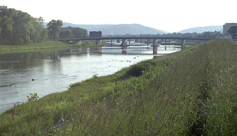 Photograph by Tim Kiser. The Chemung River at Elmira, June 1993.